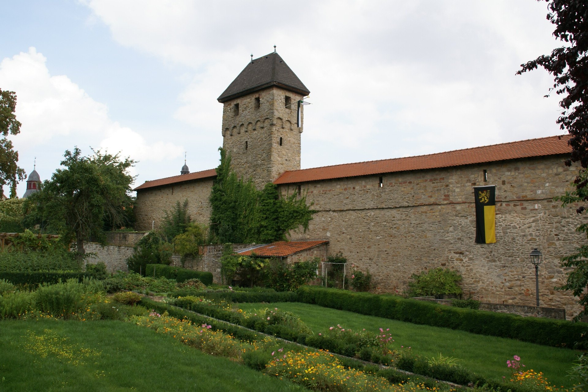 Grey Tower and defense wall at Kirchheimbolanden, Germany